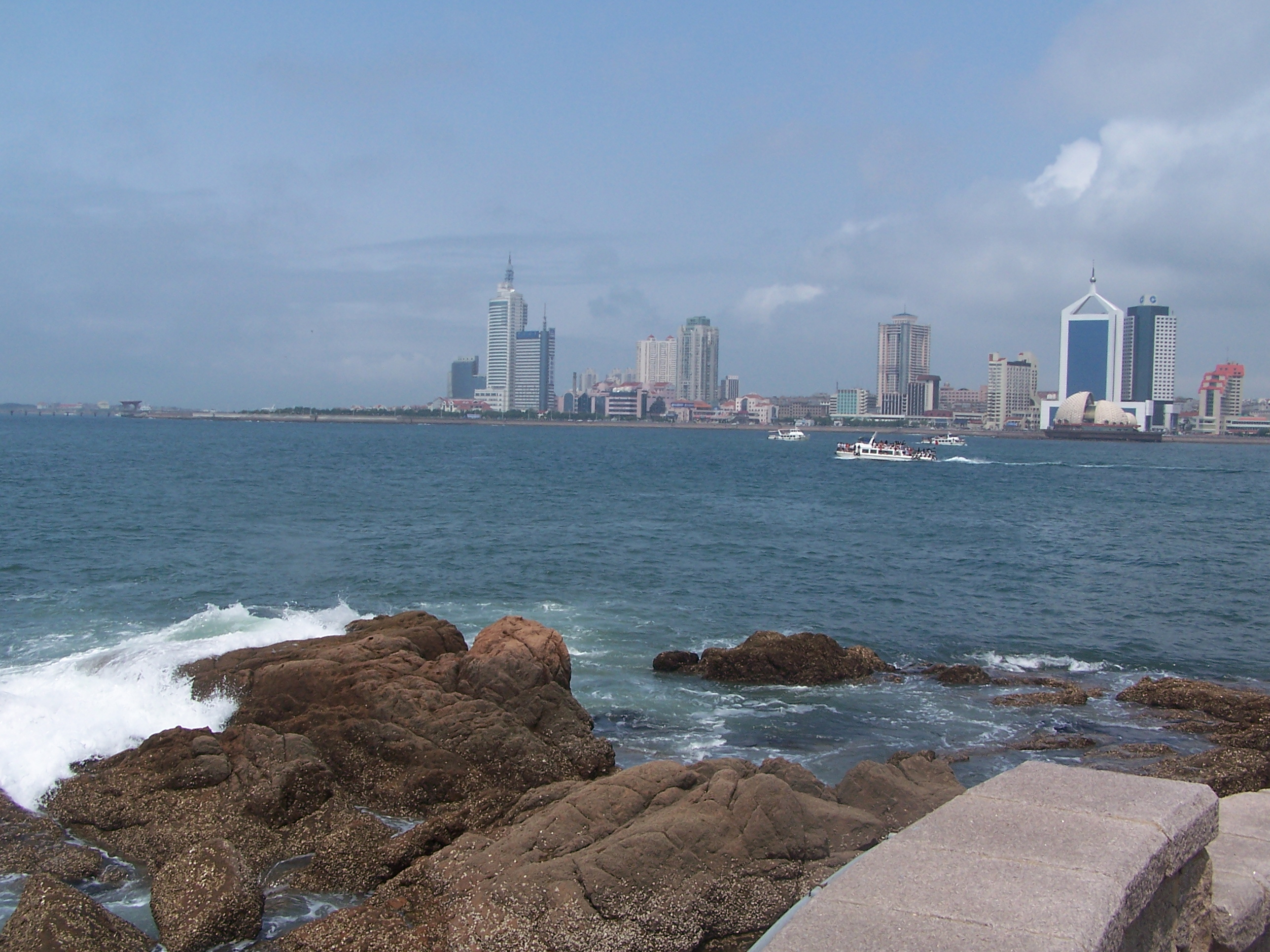 cityscape in Qingdao